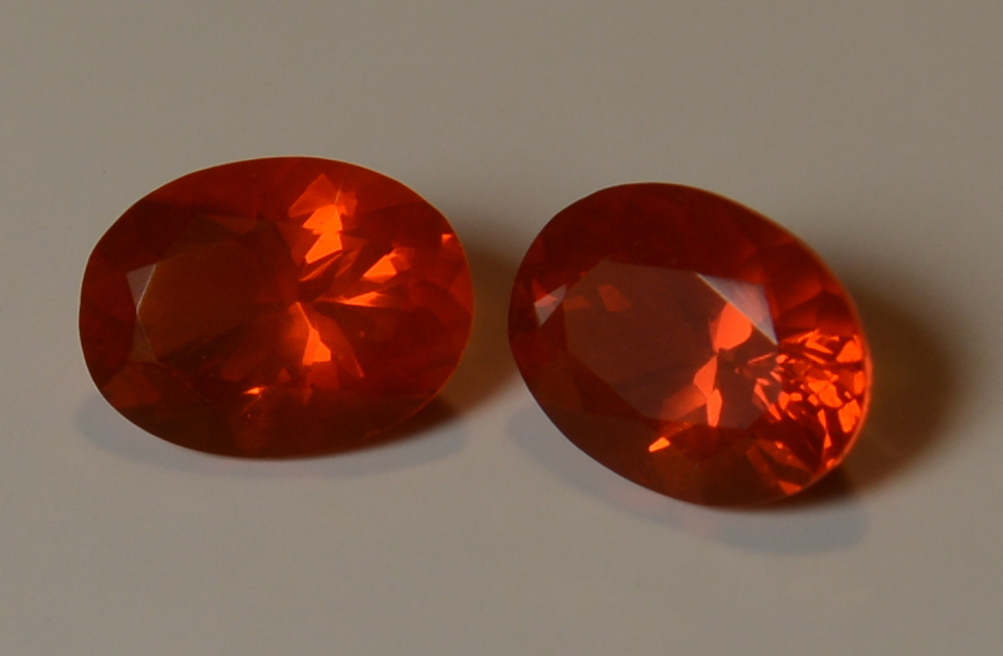 A pair of Mexican fire opals.